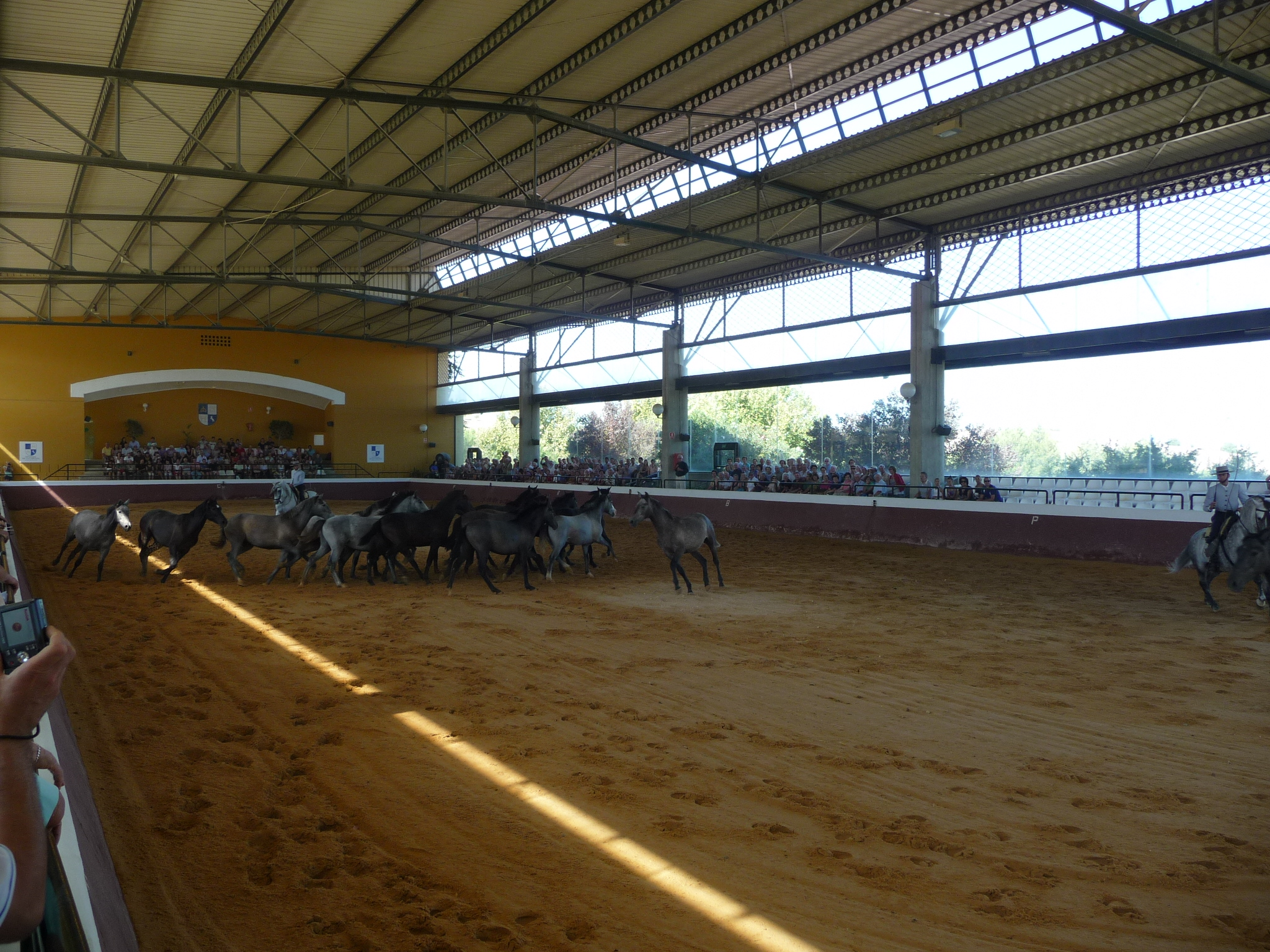 Horse show in Yeguada de la Cartuja. Jerez, Andalusia (Spain)